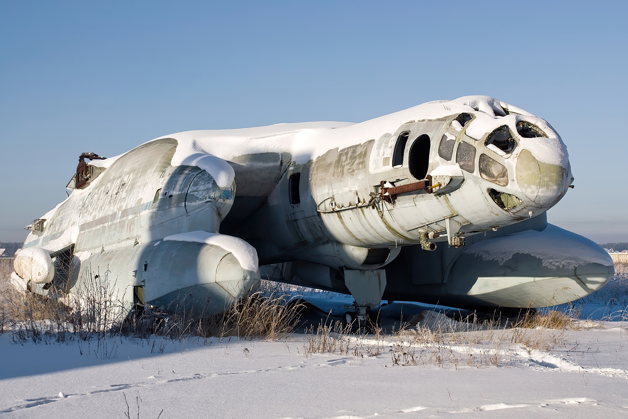 Beriev VVA-14 experimental amphibious aircraft in Central Air Force Museum, Monino